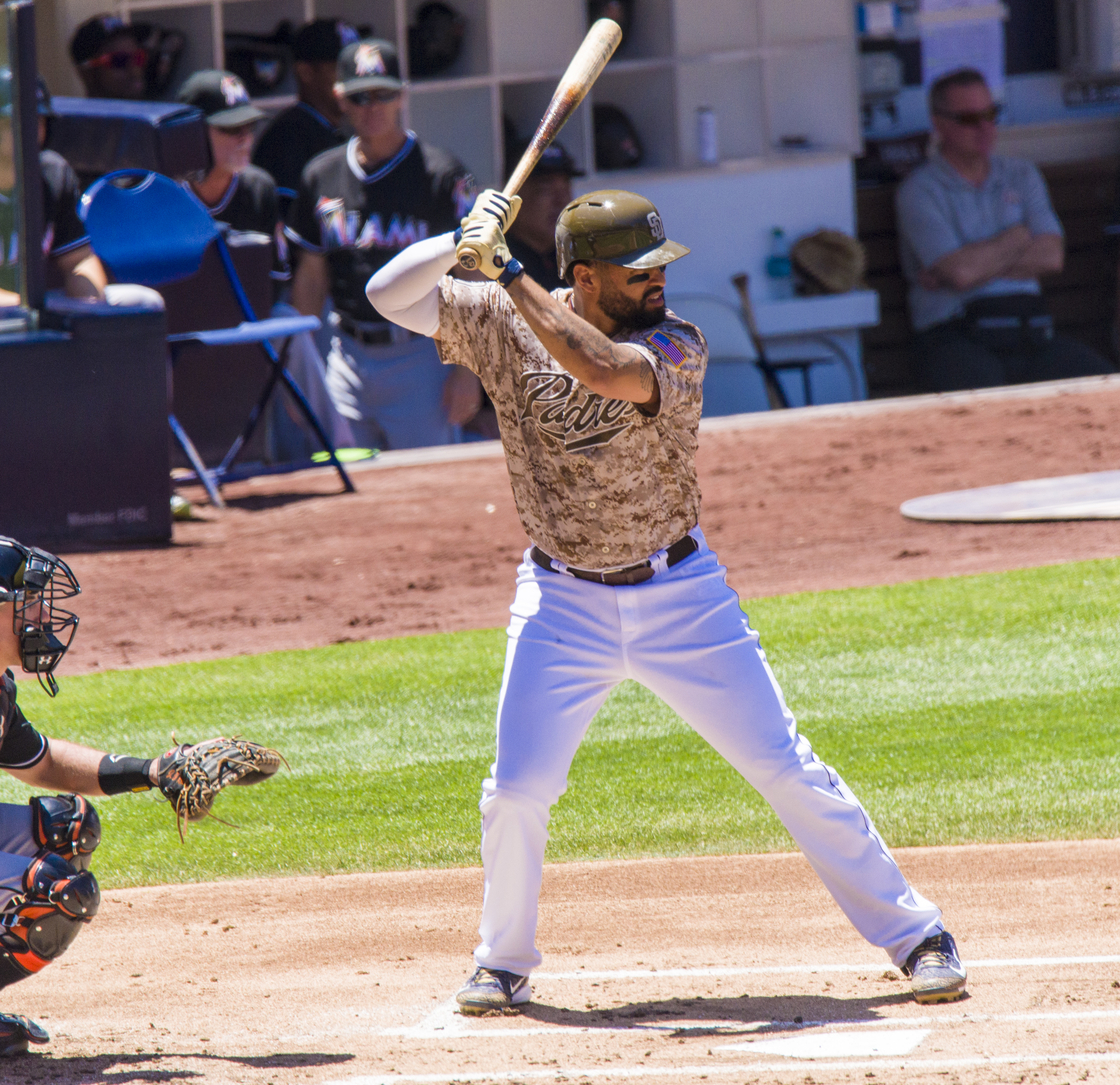 Matt Kemp batting for the San Diego Padres on July 26th, 2015